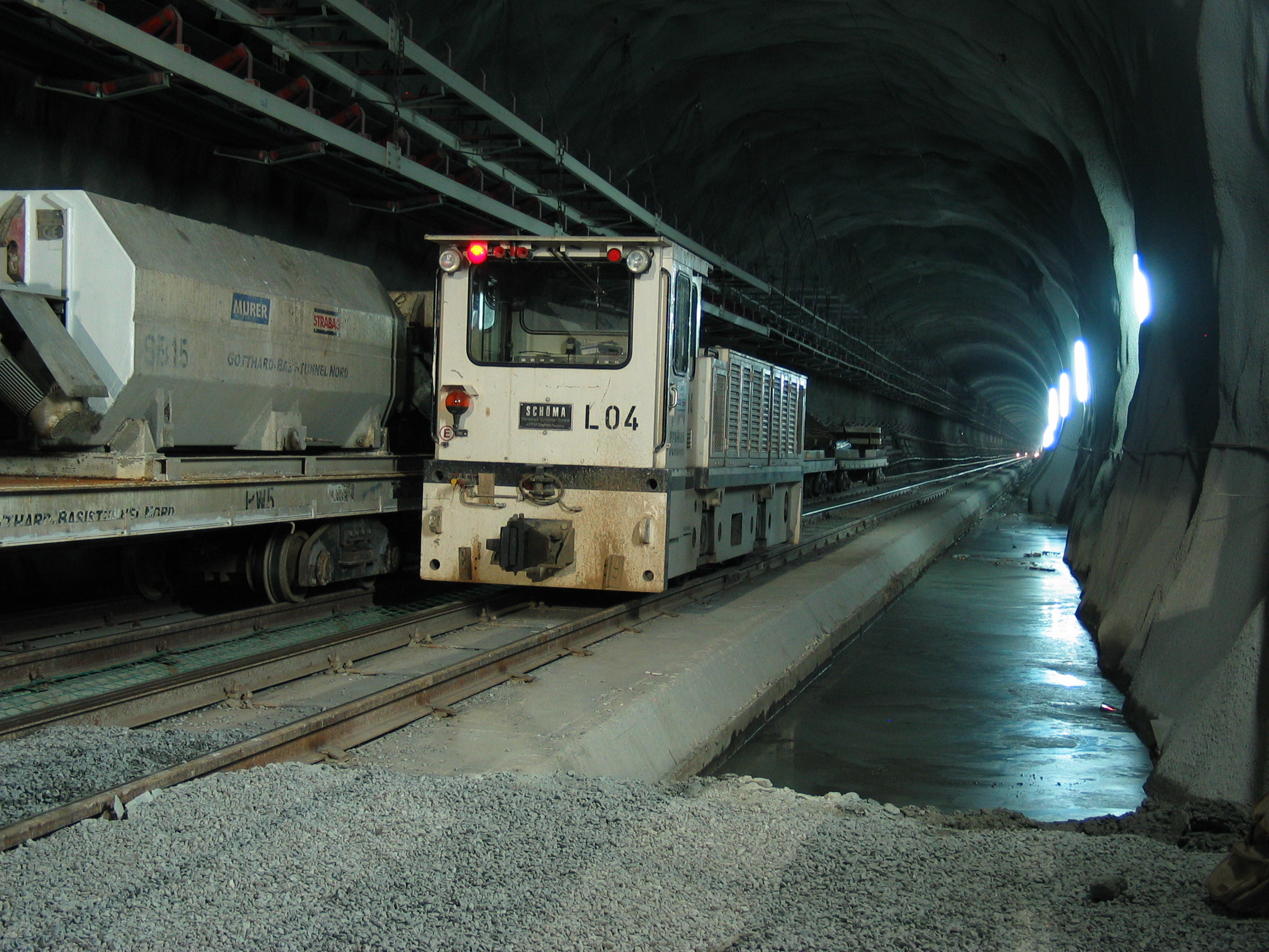 Eastern tube in the Gotthard Base Tunnel at the Amsteg construction site. The tunnel boring machine is already several miles down the tube beyond sight.